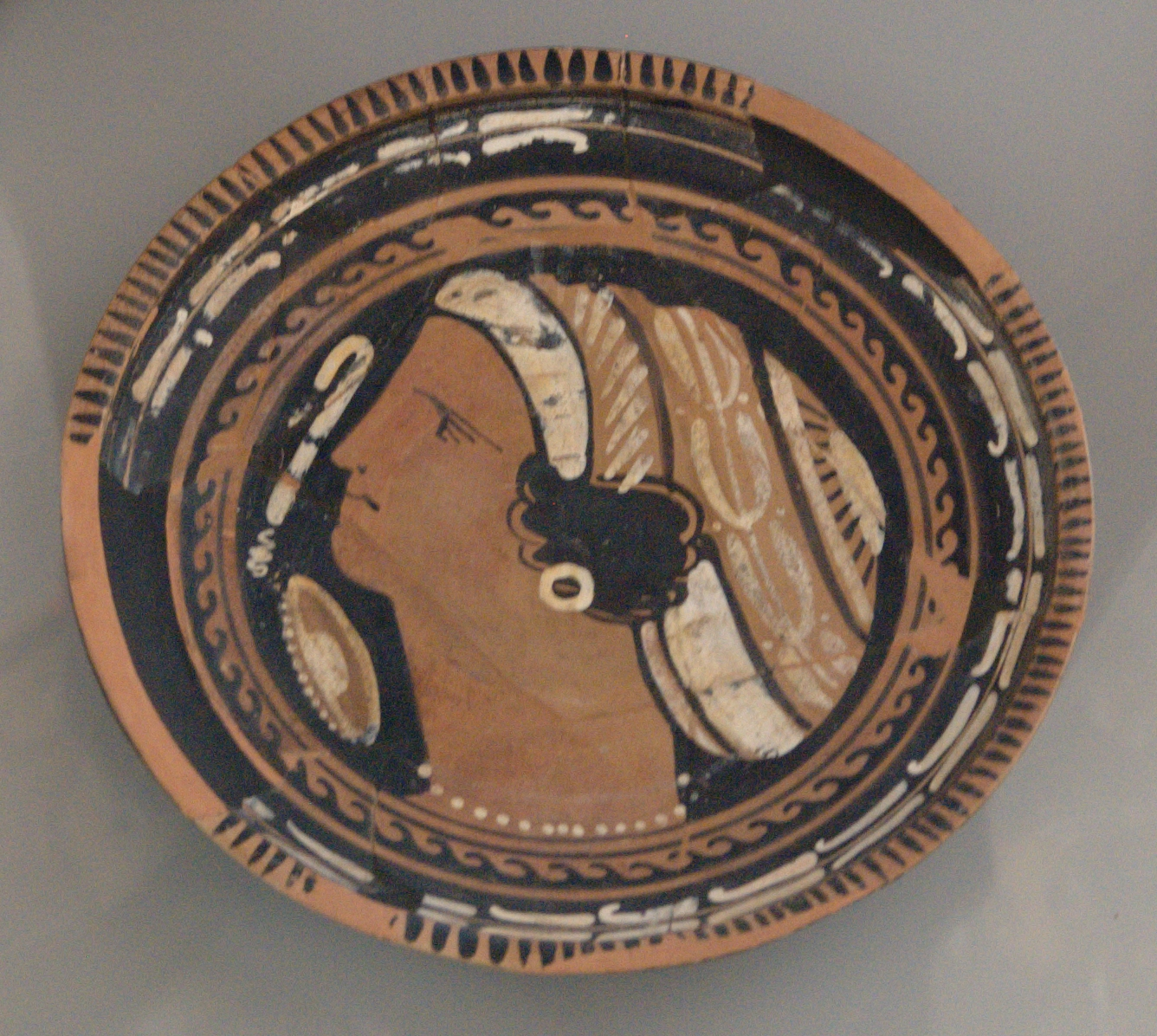 Woman head. Apulian red-figure dish, ca. 340 BC.